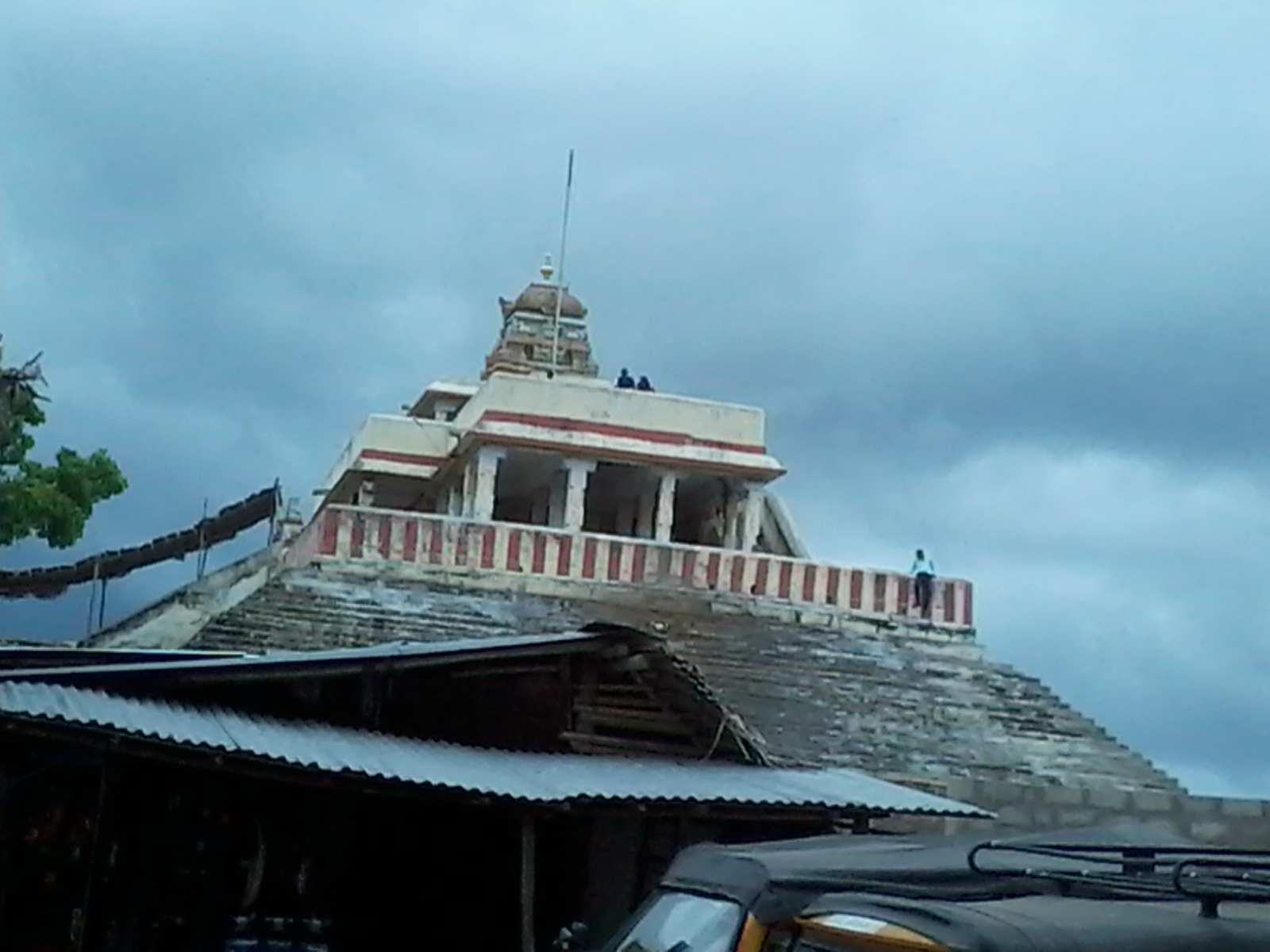 RAMAR PAATHAM OR KANDA MADHANA PARVATHAM